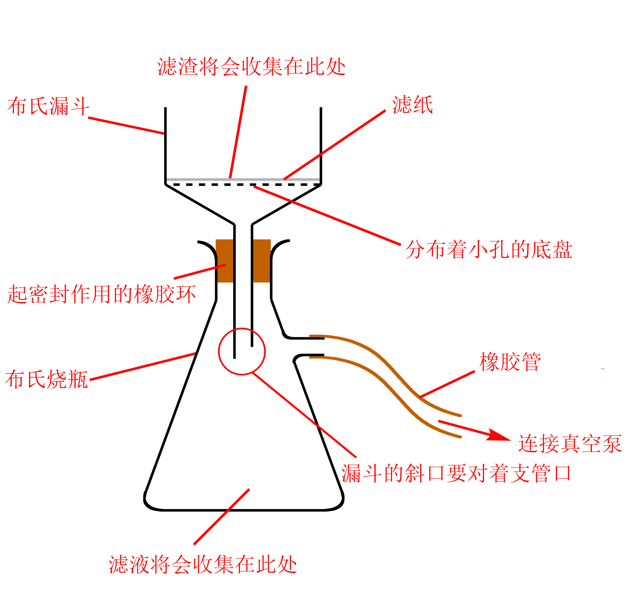 A Simplipied Chinese version which is built upon the English version File:Vacuum-filtration-diagram.png by User:Benjah-bmm27